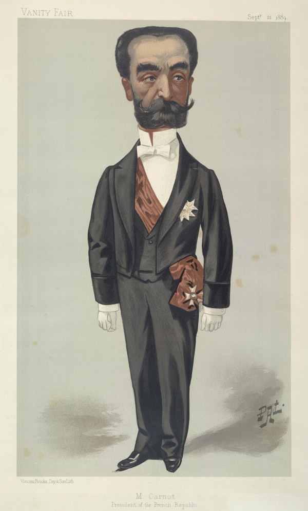 Statesmen No. 569: Caricature of Marie François Sadi Carnot (1837-1894). Caption read "President of the French Republic".